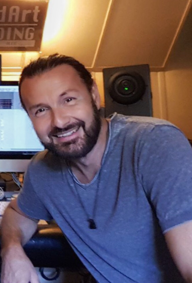 Alexander Lysjakow, Soundartrecording